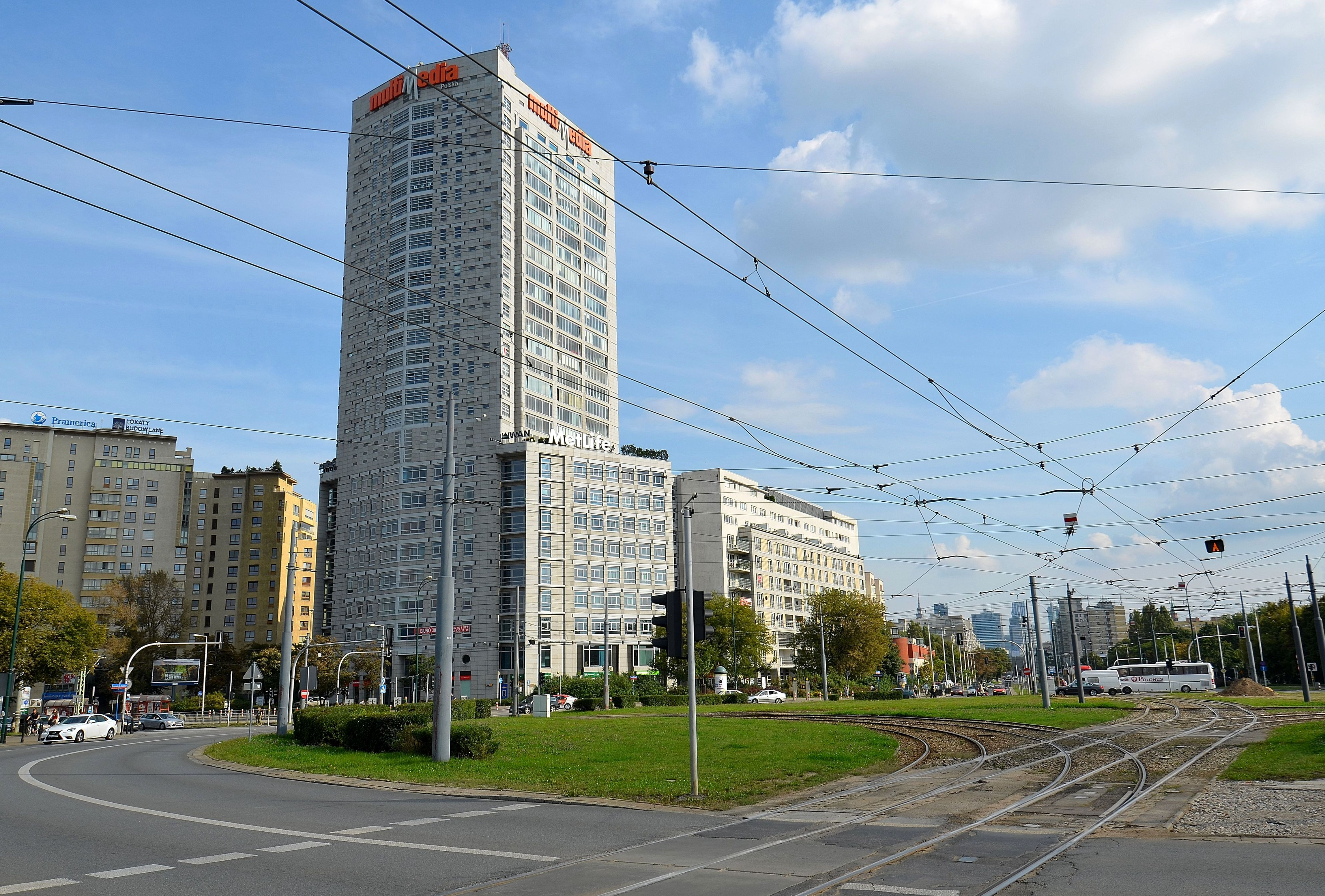 Babka Tower in Warsaw